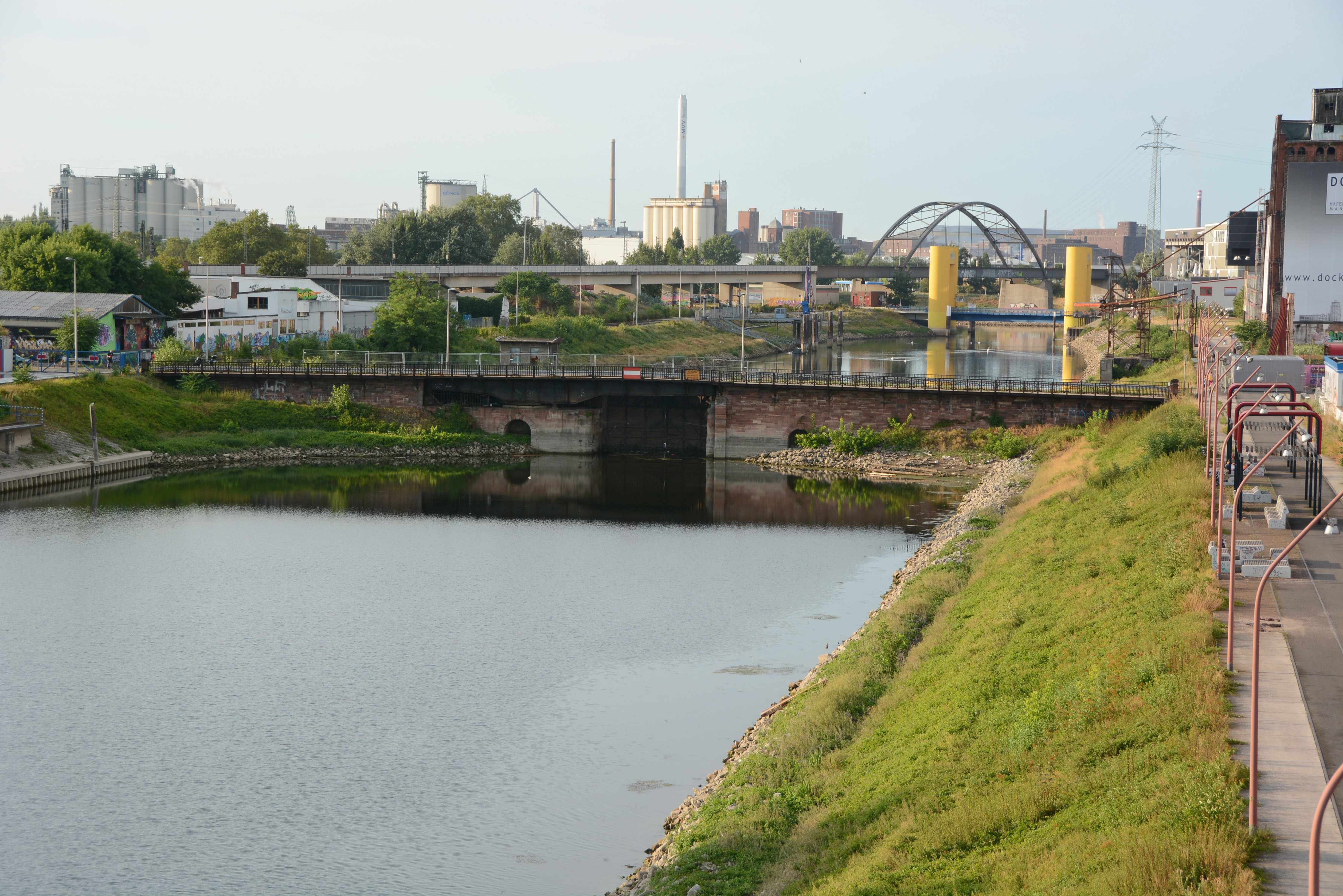 Teufelsbrücke ("Devil's Bridge"), Mannheim